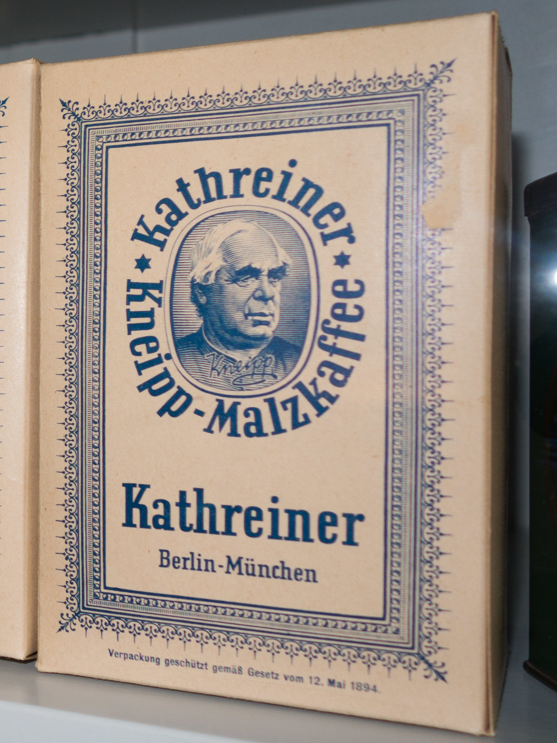 Antique coffee substitutes - Masta, Quieta, Kathreiner